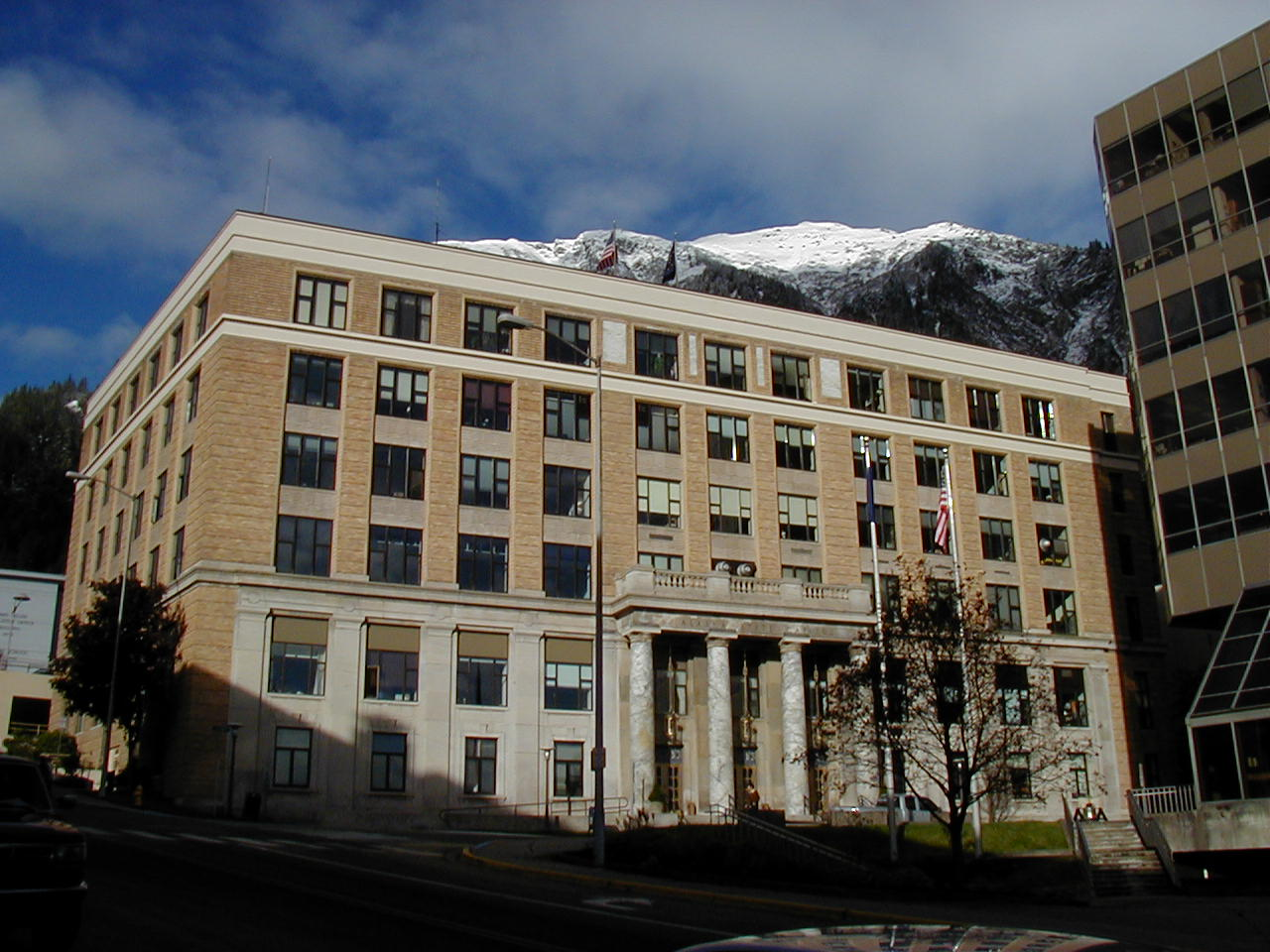 Prior to Statehood in 1959 was the Territorial Post office